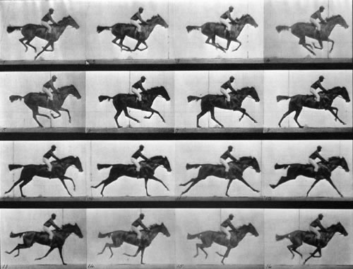 Le galop de Daisy-Muybridge, 1878 – (The title is not correct. This is plate 626 of Eadweard Muybridge's Complete Human and Animal Locomotion, 1887. It is called "Annie G." galloping. -wau 23:27, 30 January 2006 (UTC))